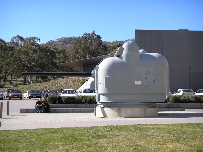 Category:Images of Canberra Summary A 5-inch gun turret from the HMAS Brisbane on display in the grounds of the Australian War Memorial in Canberra.